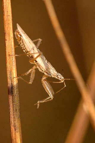 Picture taken in Commanster, Belgian High Ardennes . Species: Nabis rugosus